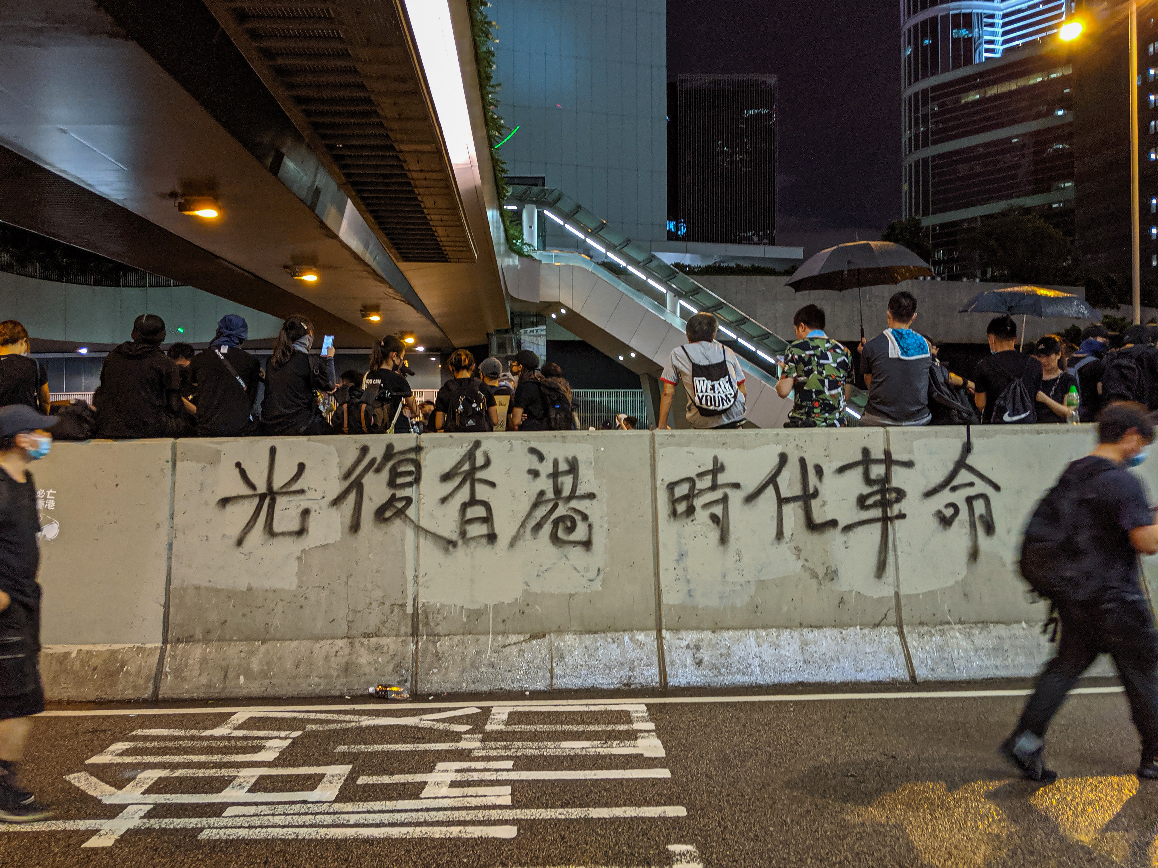 Protesters brave heavy rain as they march against the 2019 Hong Kong extradition bill on Sunday, August 18, 2019.